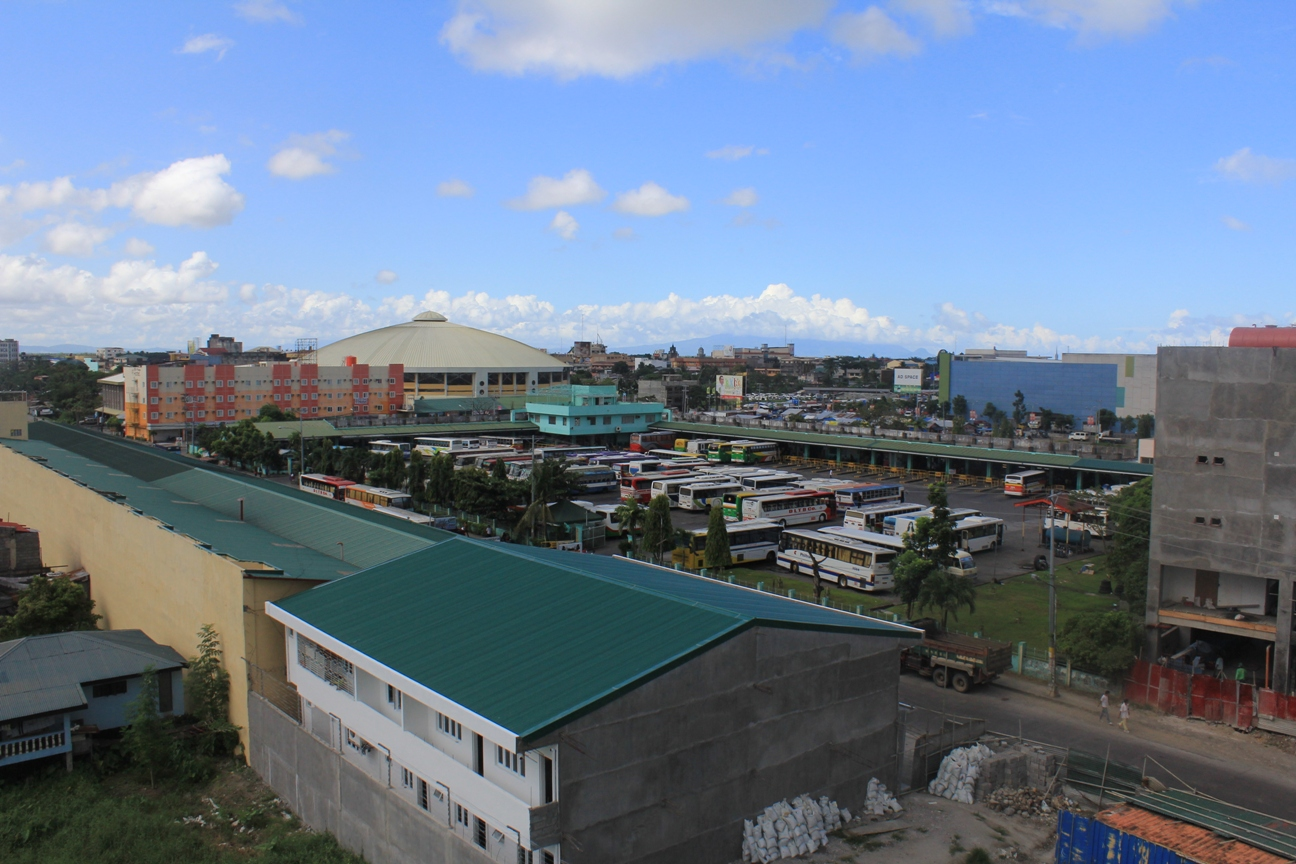 Bus Terminal Naga City